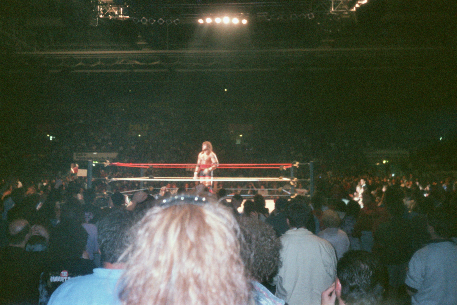 Wrestler Adam Bomb (Bryan Clark) at WWF In High Gear Tour 95 in Stuttgart (Schleyerhalle)